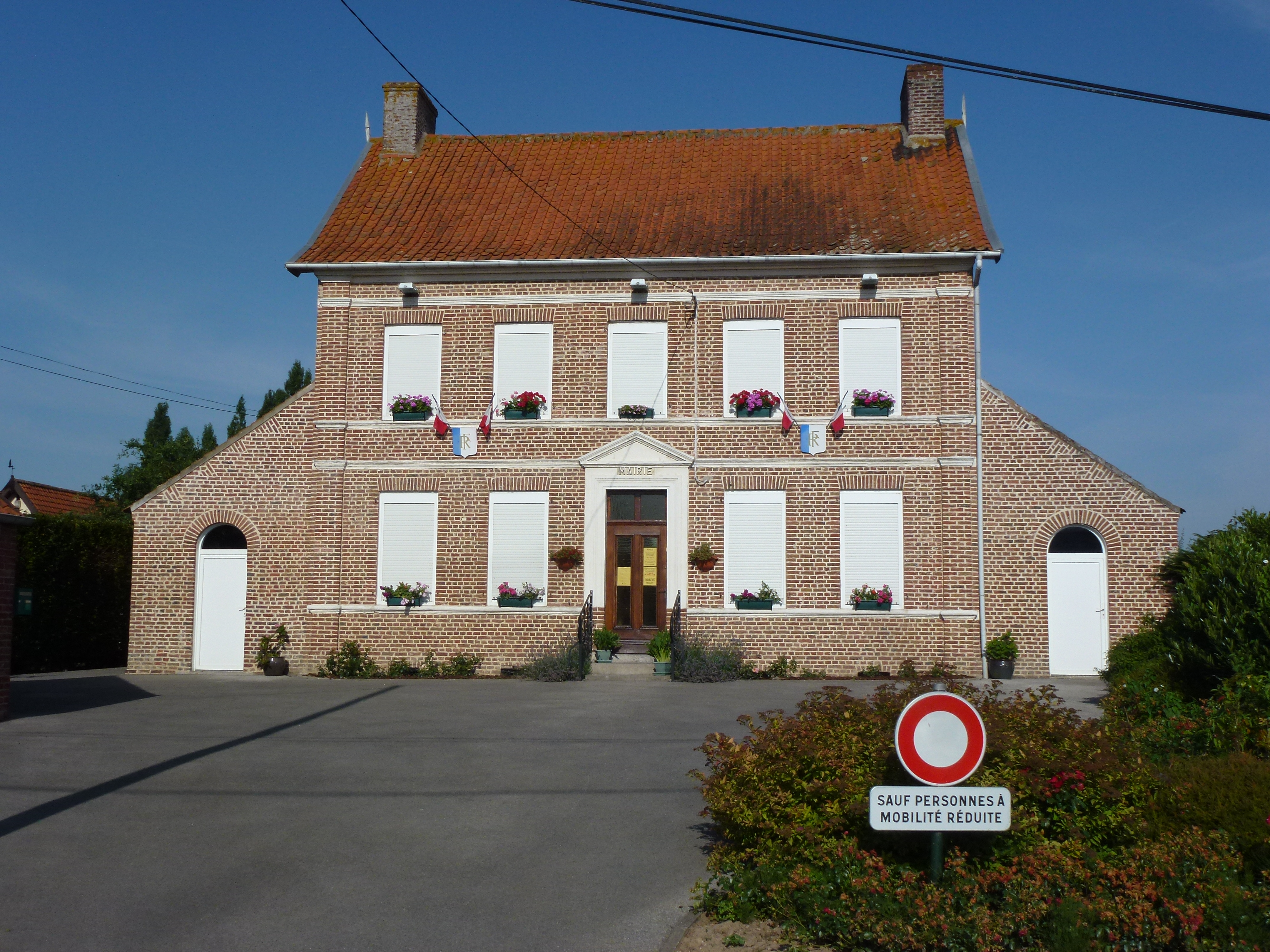 Recques-sur-Hem (Pas-de-Calais) mairie